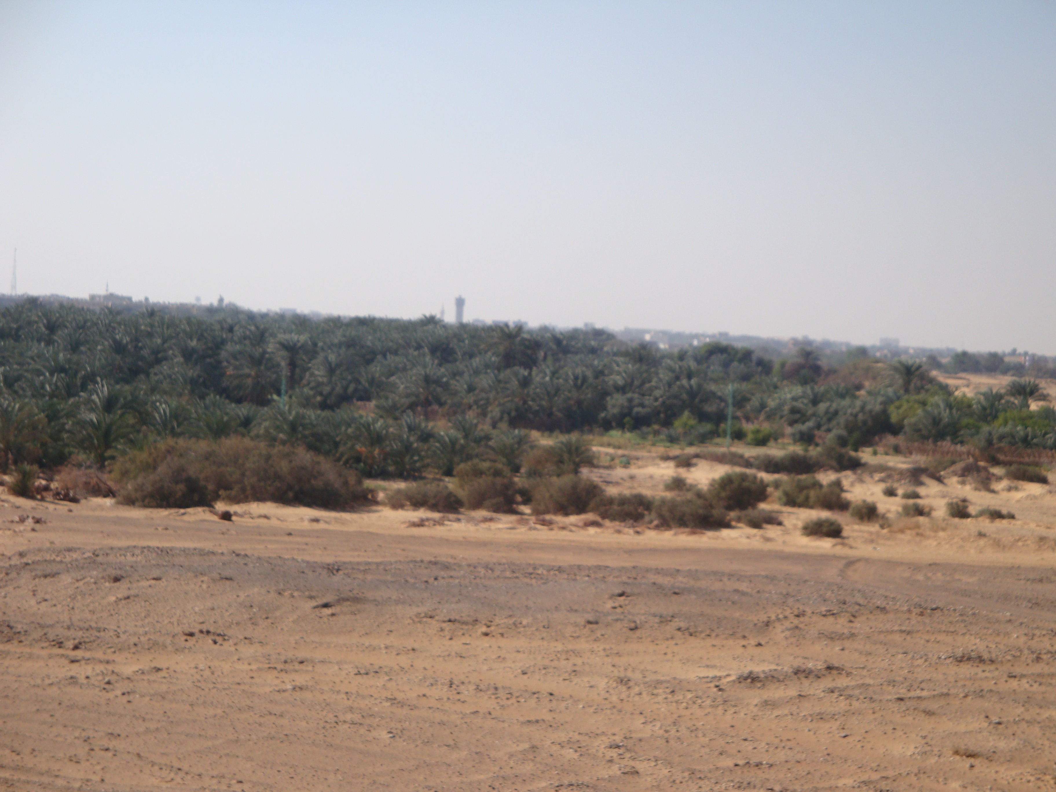 The Kharga Oasis in vicinity of Bagawat, western Egypt.